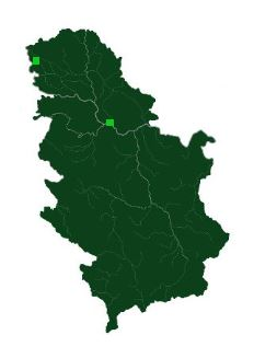 Leuorrhinia caudalis - rasprostranjenje u Srbiji